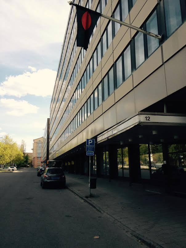 Embassy of Bangladesh in Stockholm, Sweden.